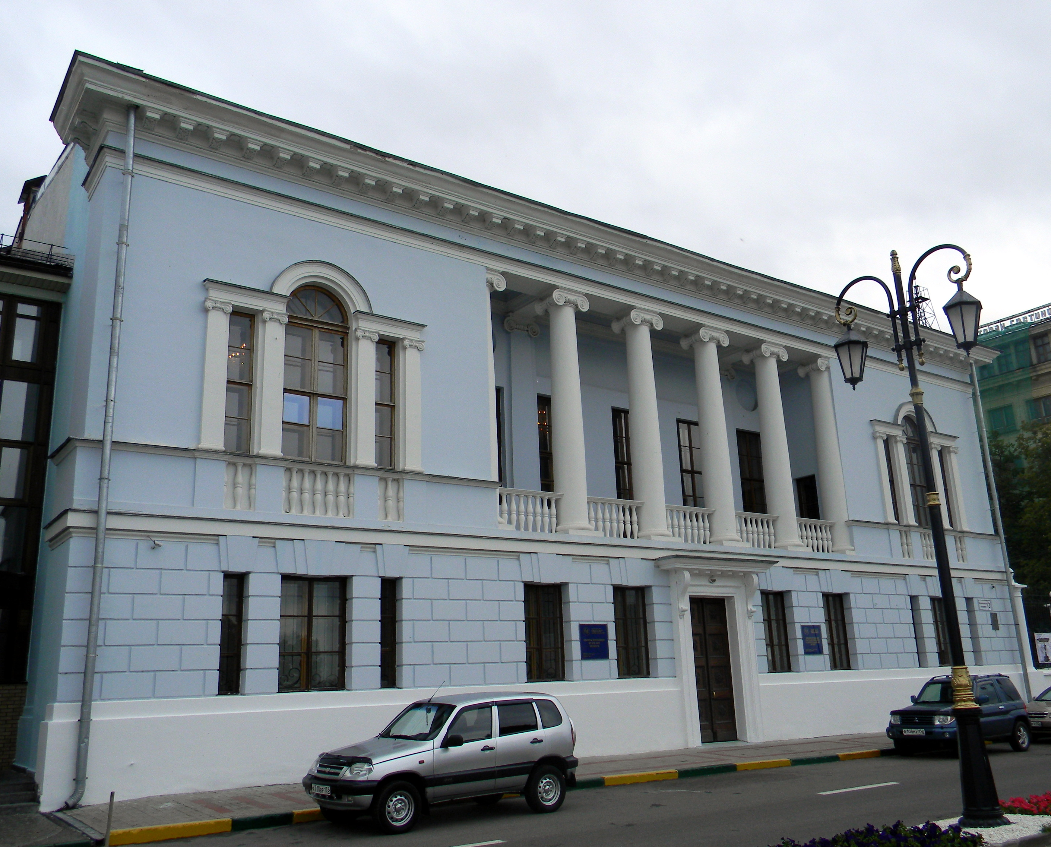 The mansion of the merchant, industrialist and Nizhny Novgorod City Head Dmitry Sirotkin